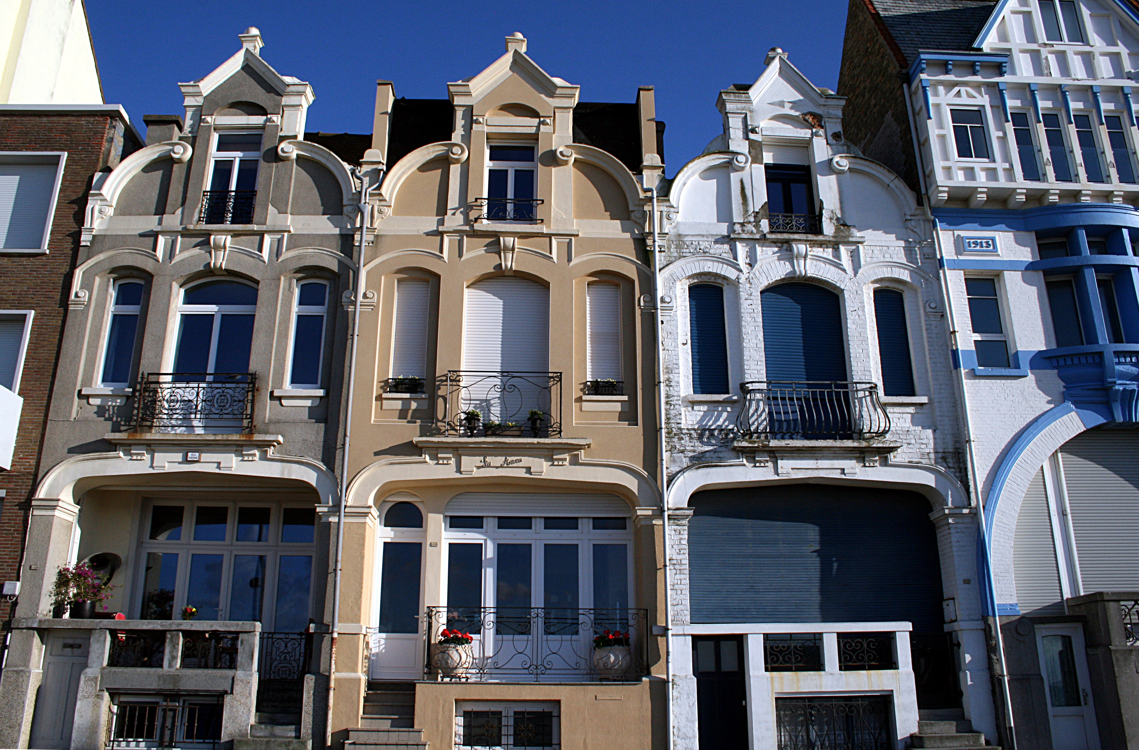 Three identical villas on the Digue de Mer in Bray-Dunes (Nord department, France).